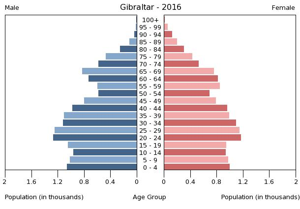 The population pyramid of Gibraltar illustrates the age and sex structure of population and may provide insights about political and social stability, as well as economic development. The population is distributed along the horizontal axis, with males shown on the left and females on the right. The male and female populations are broken down into 5-year age groups represented as horizontal bars along the vertical axis, with the youngest age groups at the bottom and the oldest at the top. The shape of the population pyramid gradually evolves over time based on fertility, mortality, and international migration trends.